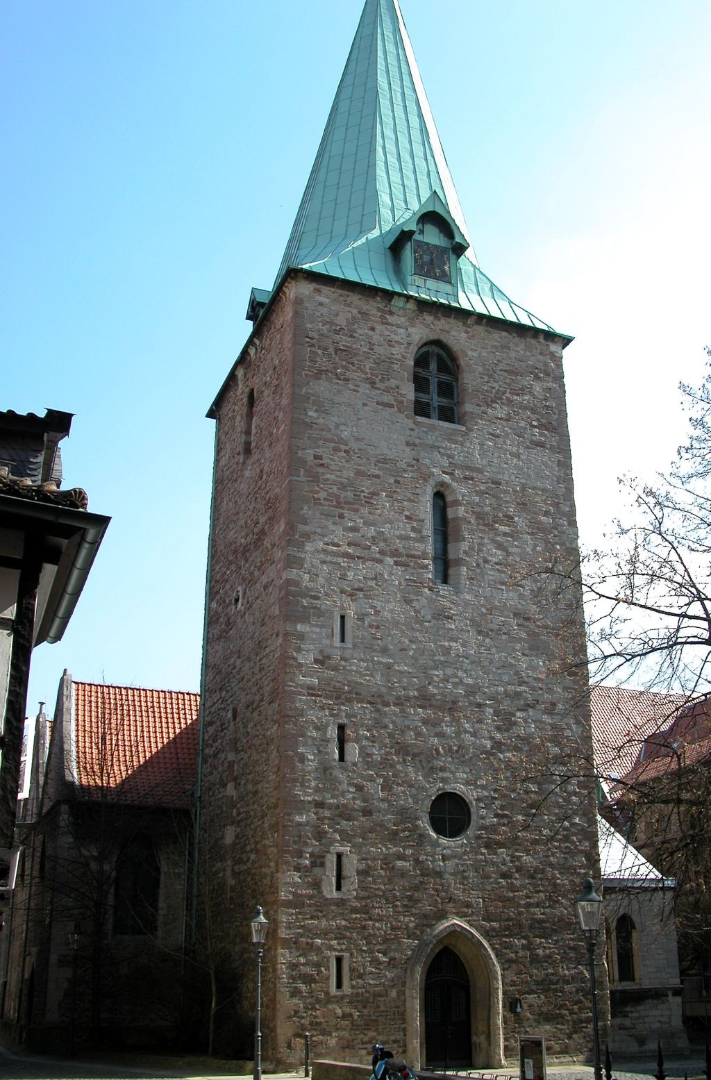 Brunswick, Germany: St. Michael’s as seen from the west.